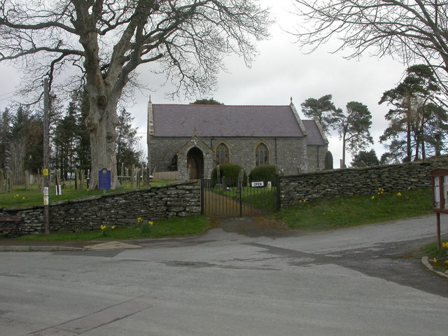 St. Harmon, St. Garmon's Church Small church rebuilt in 1821